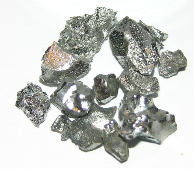 Molybdenum